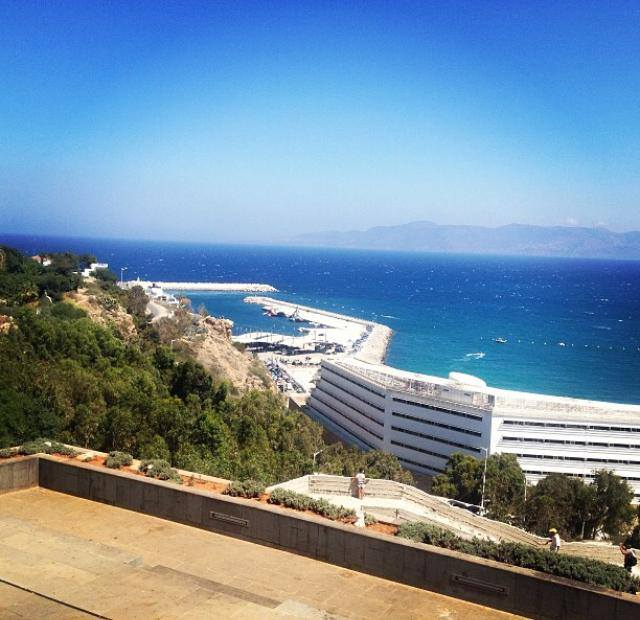 ciuad de alhoceima